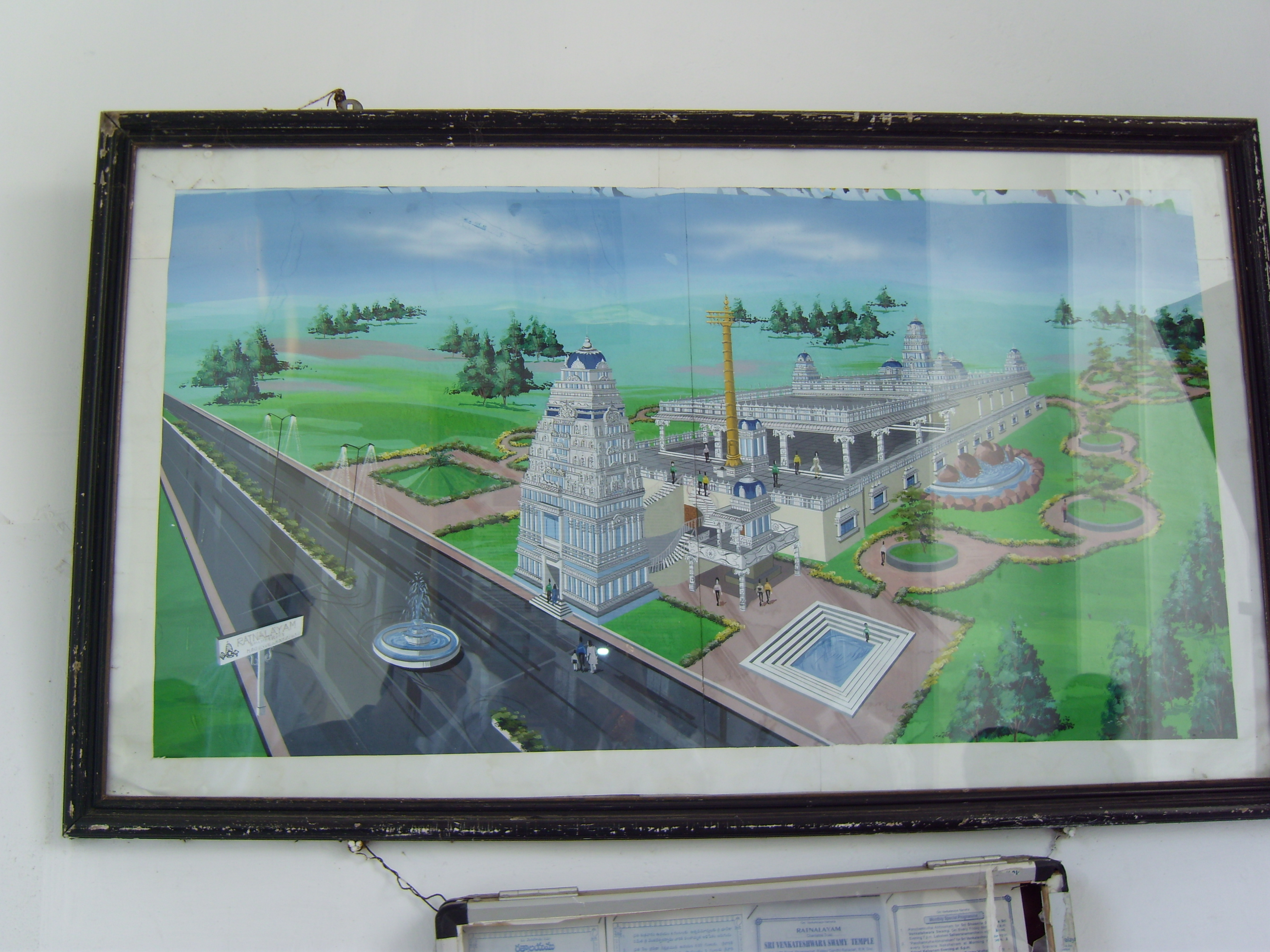 Ratnalayam Venkateswara Temple